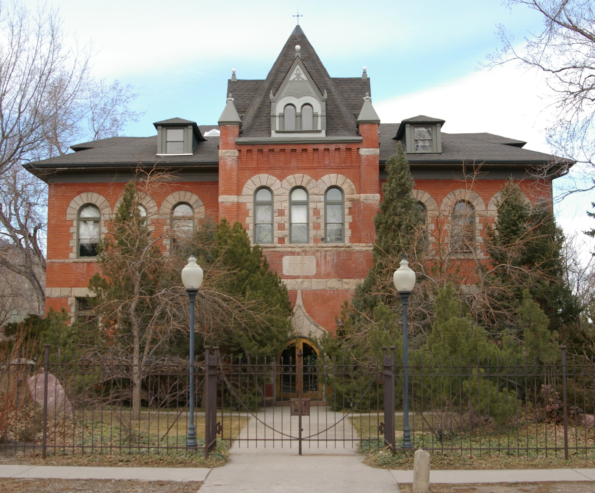 Highland School, at the northwest corner of Arapahoe Ave and 9th street in Boulder, Colorado.